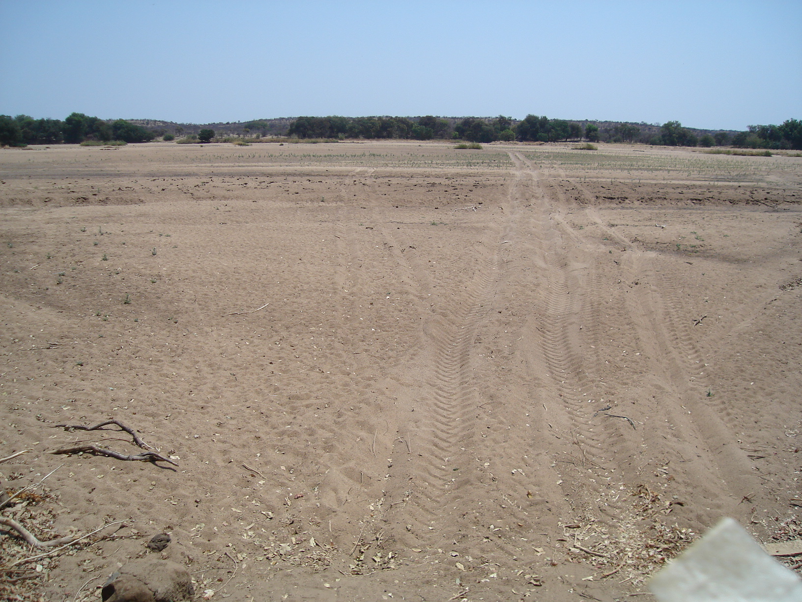 North crossing point over the Shashe River into Thuli Parks and Wildlife Land.